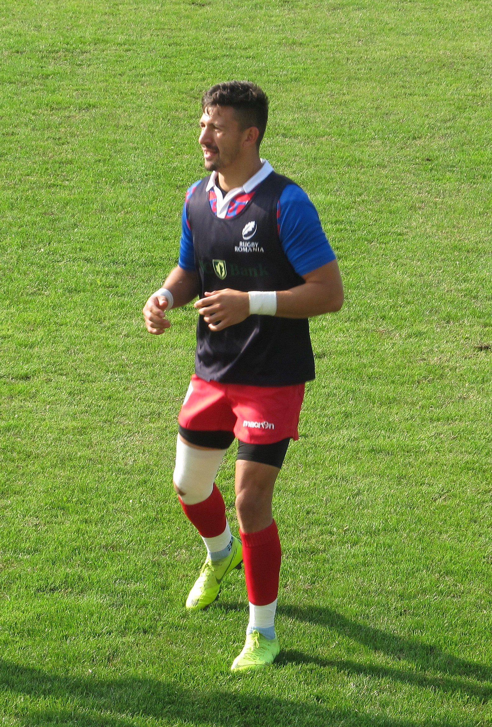 Romanian rugby union football player Daniel Plai, player of CSA Steaua București rugby club seen training during the half-time of a match against CSM Baia Mare in Round 9 of Romanian Rugby Superliga 2019–20 season in October 2019